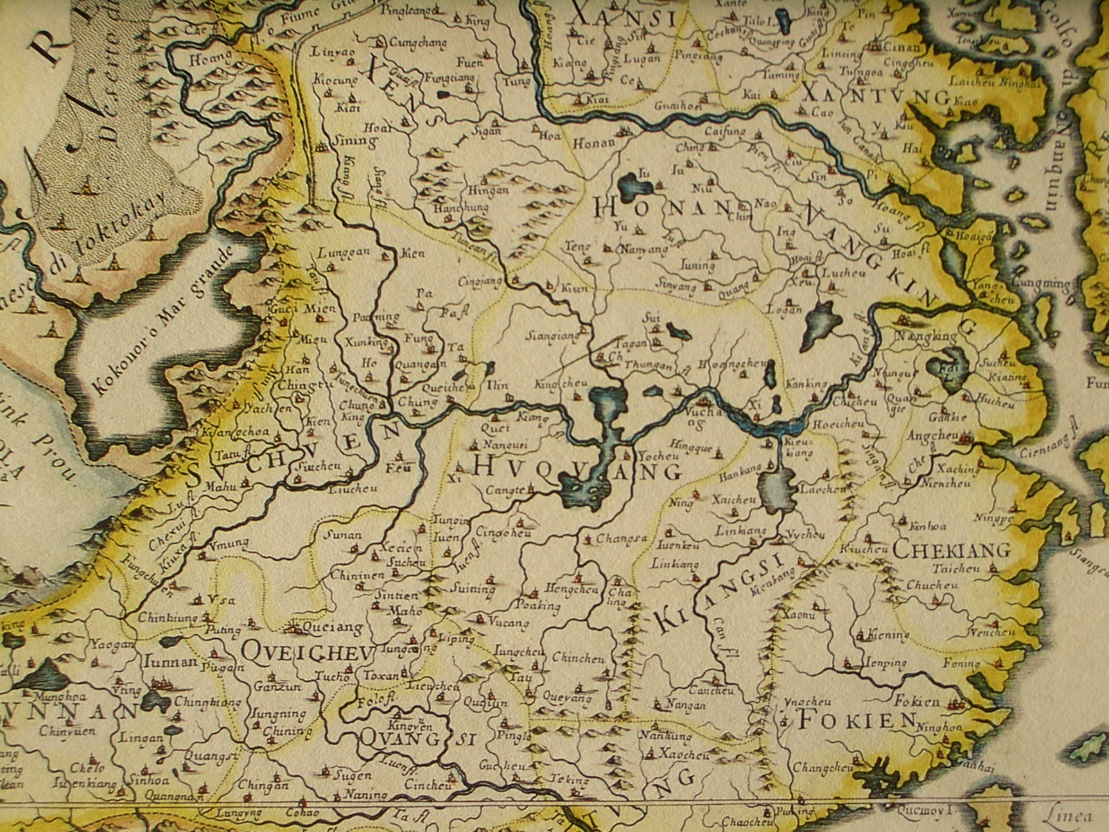 Northeastern fragment of a map of China (in Italian), showing the central China, in particular Huguang (Hunan + Hubei)